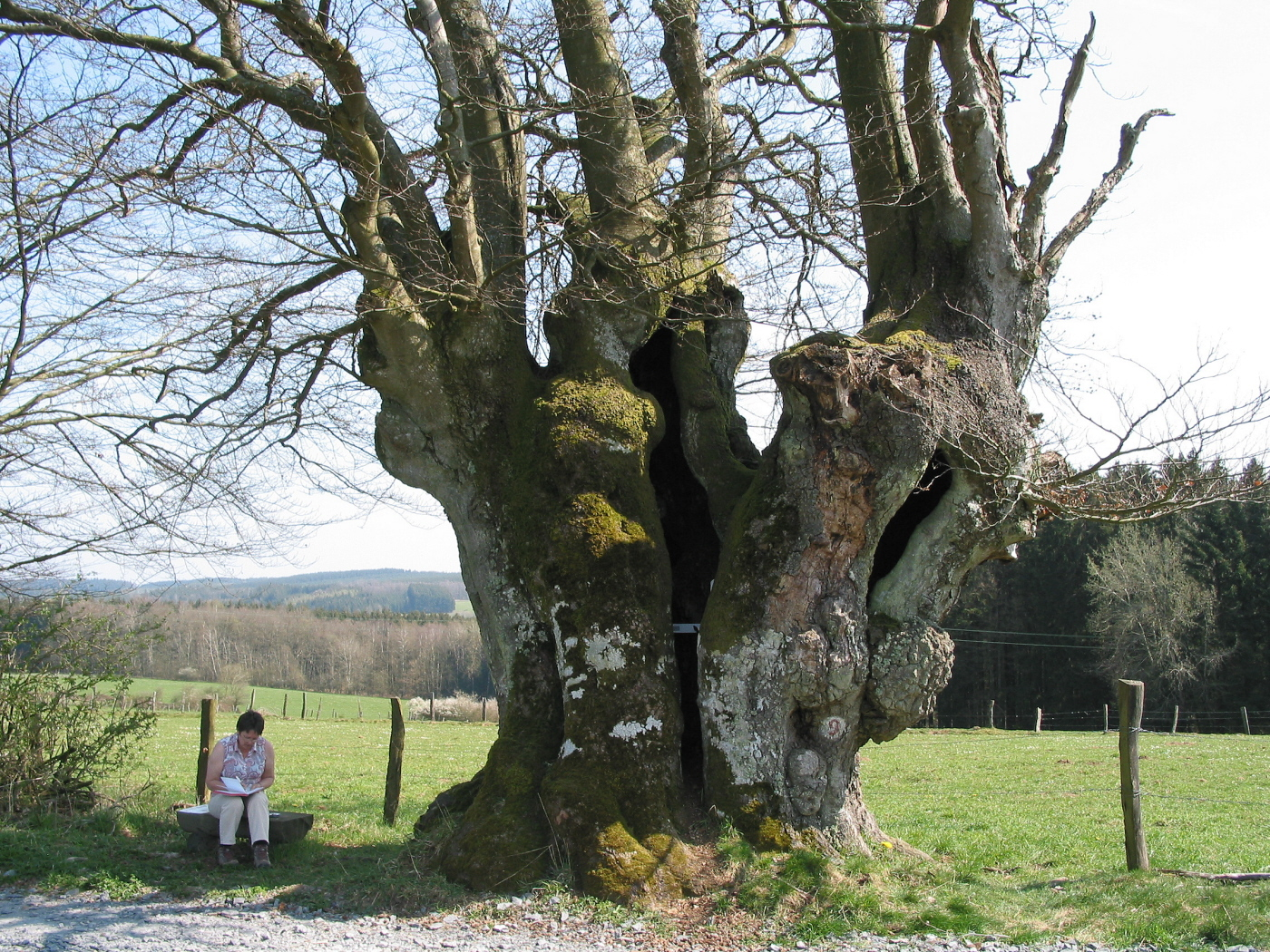 European beech